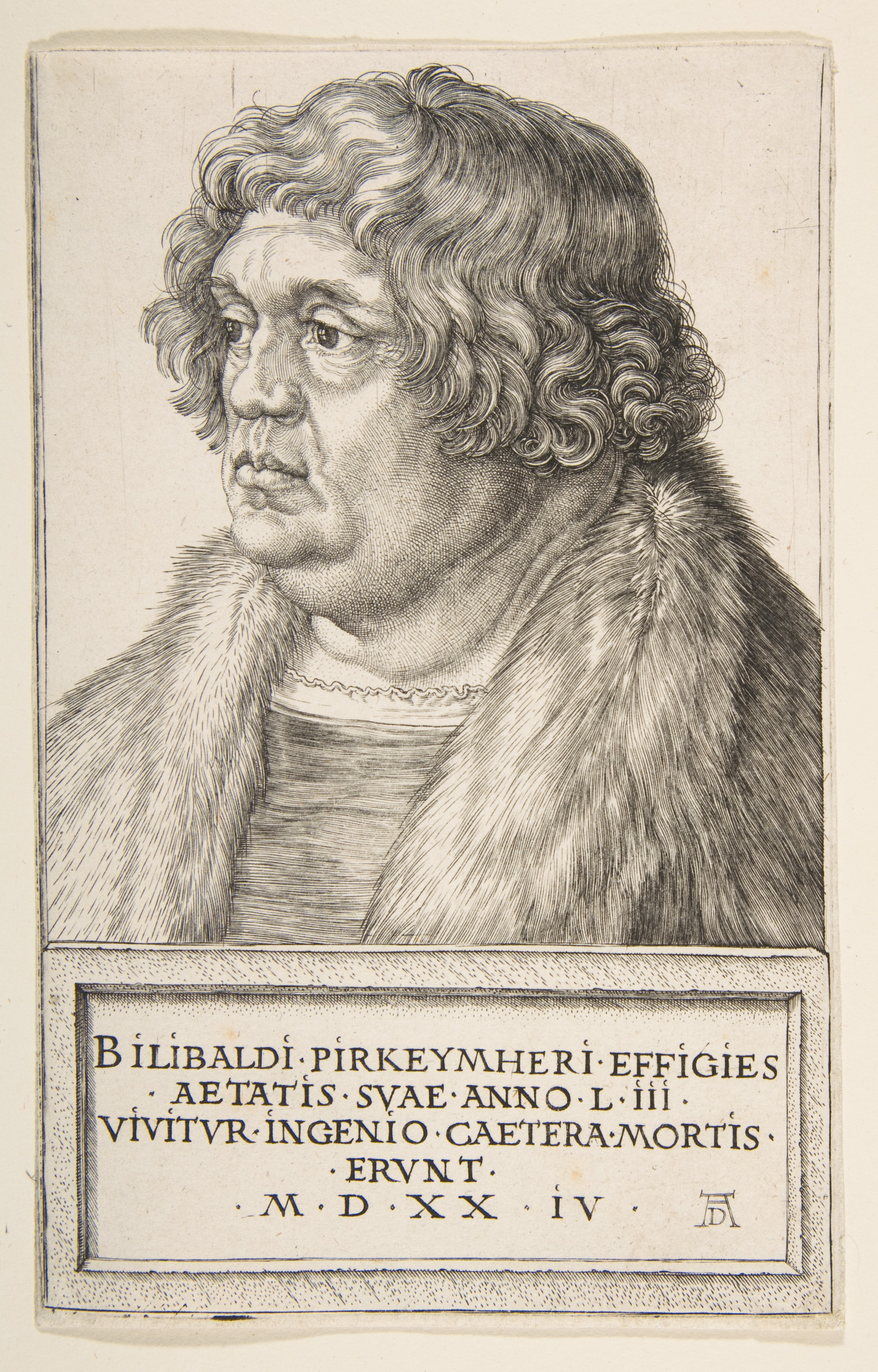 Print; Prints